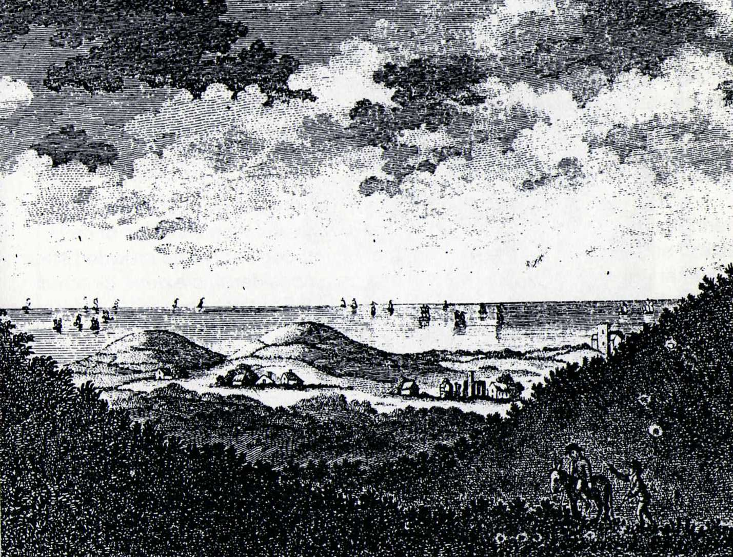 an etching dated around c.1785 by an unknown artist which shows the twin Beeston Hills before coastal erosion destroyed the left hill, Beeston Regis, Norfolk